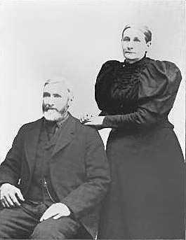 William and Margaret Core, Bingham MI farmers, c.1903